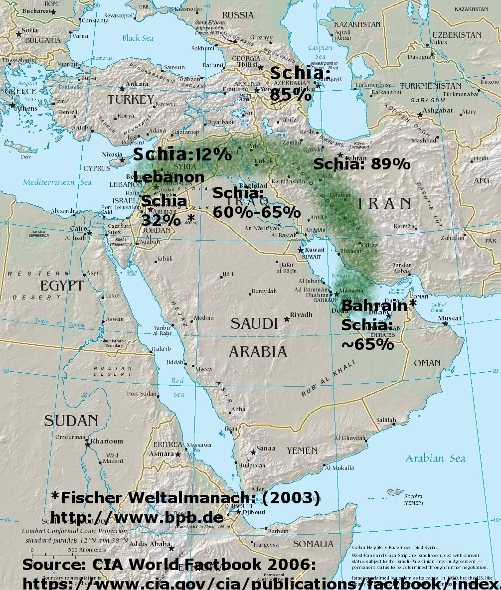 The map shows the so-called "Shia crescent" (in green).